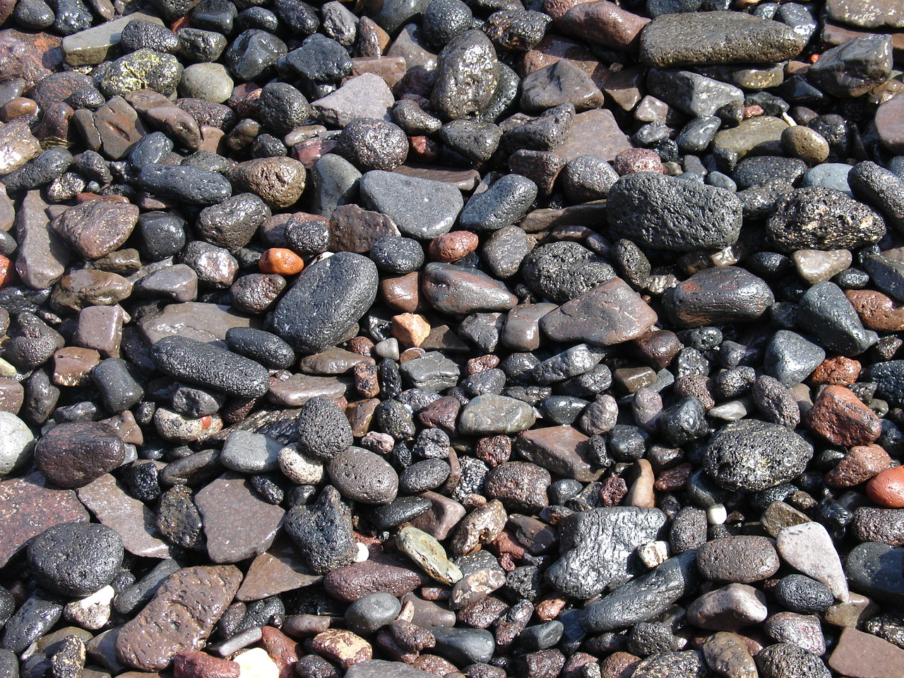 Gravel on a beach in Thirasia, Santorini, Greece.